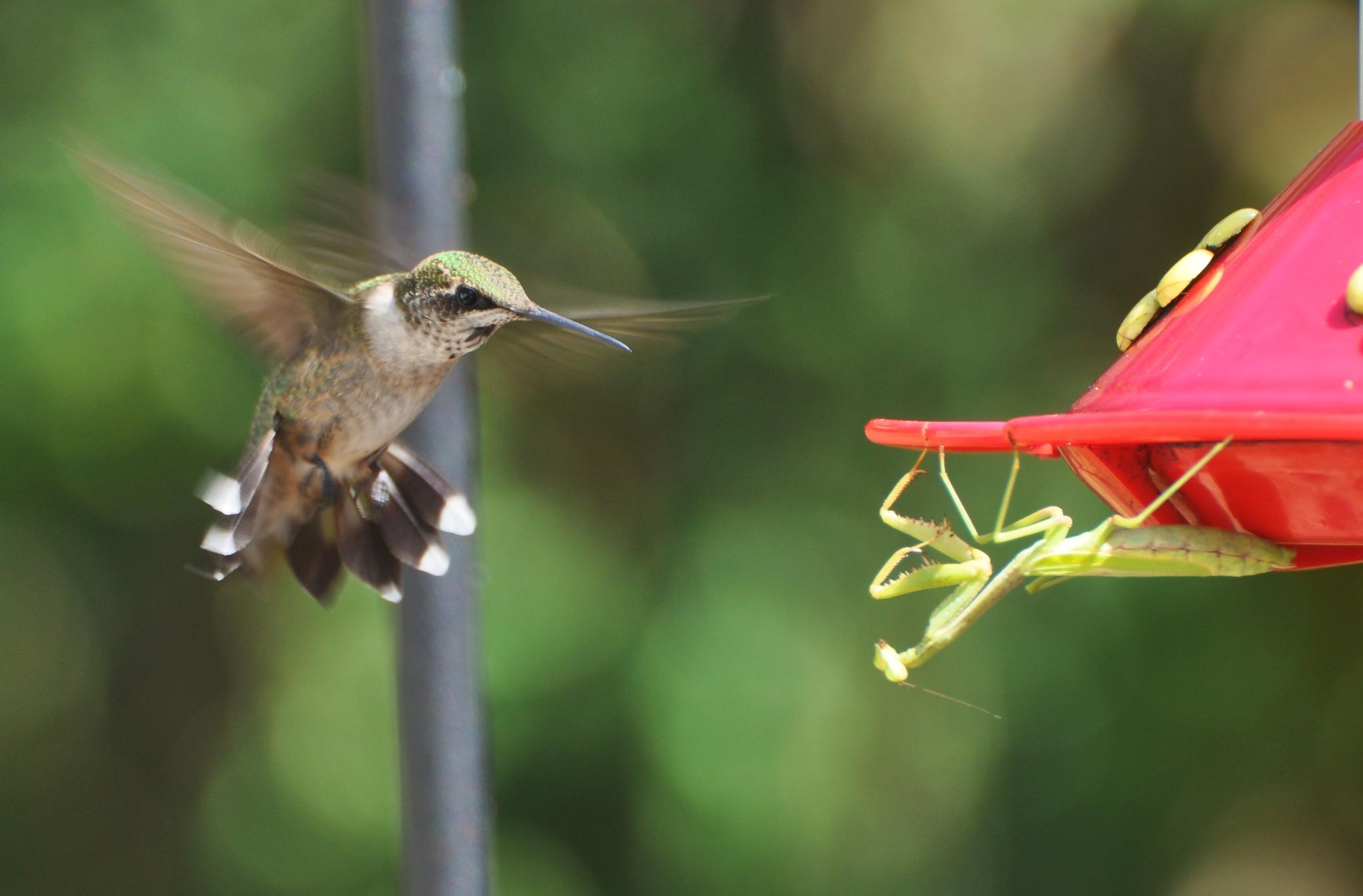 Ruby-throated Hummingbird Archilochus colubris and mantis, Illinois